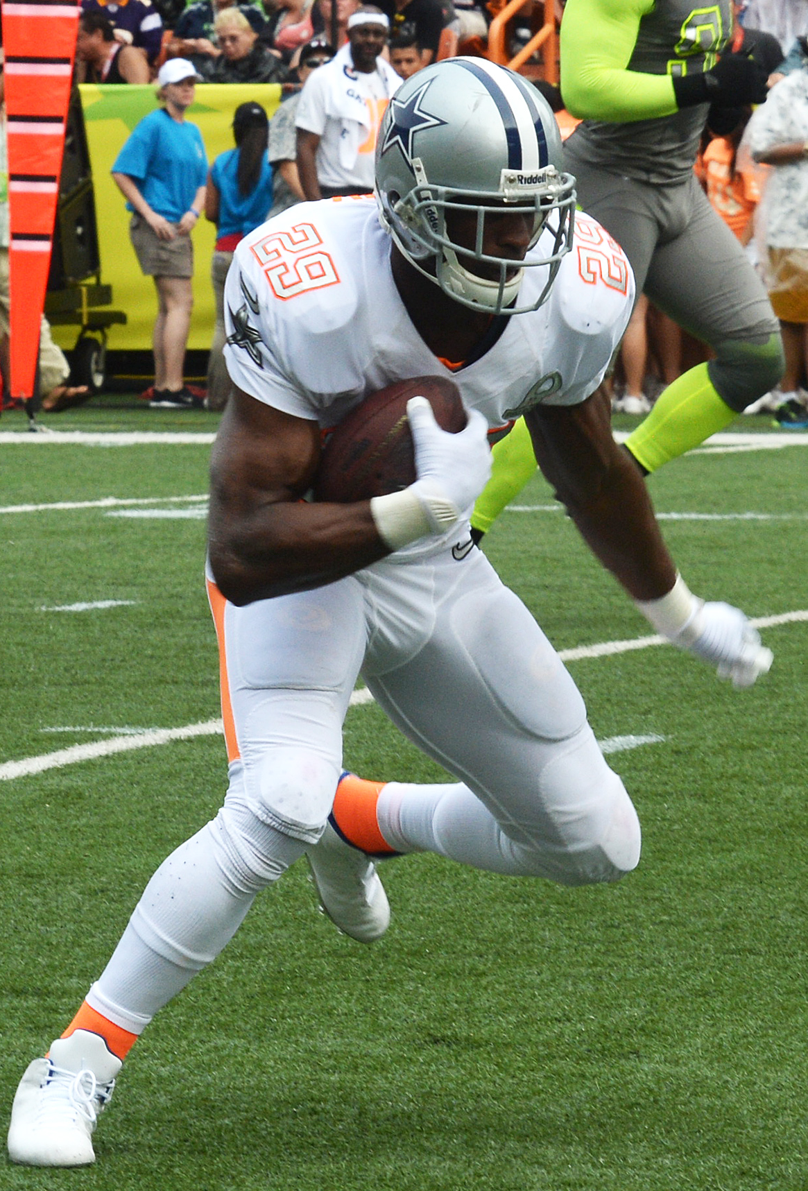 DeMarco Murray in 2014 Pro Bowl.